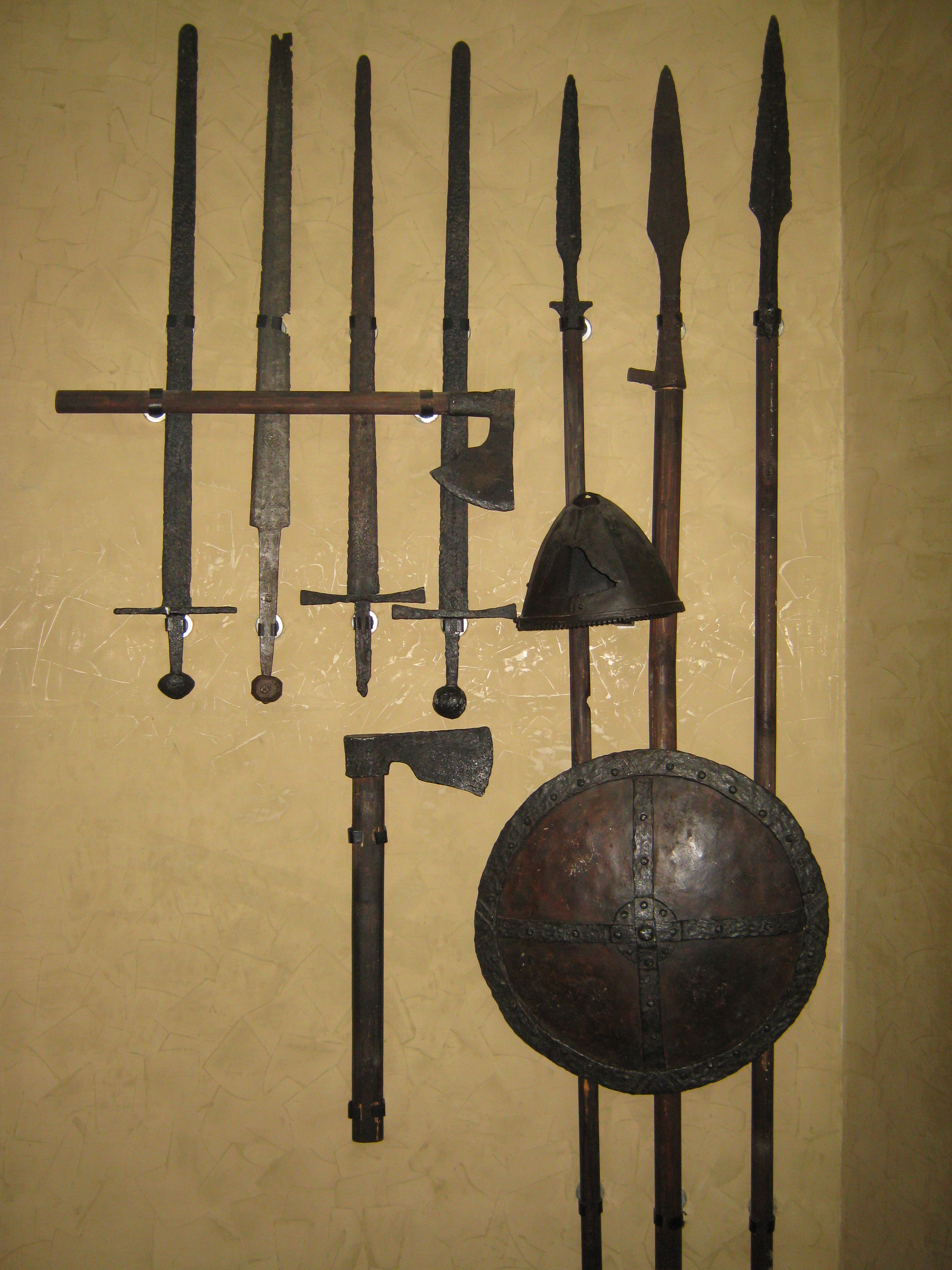 Serbian medieval army equipment Photo taken in:Military museum Belgrade